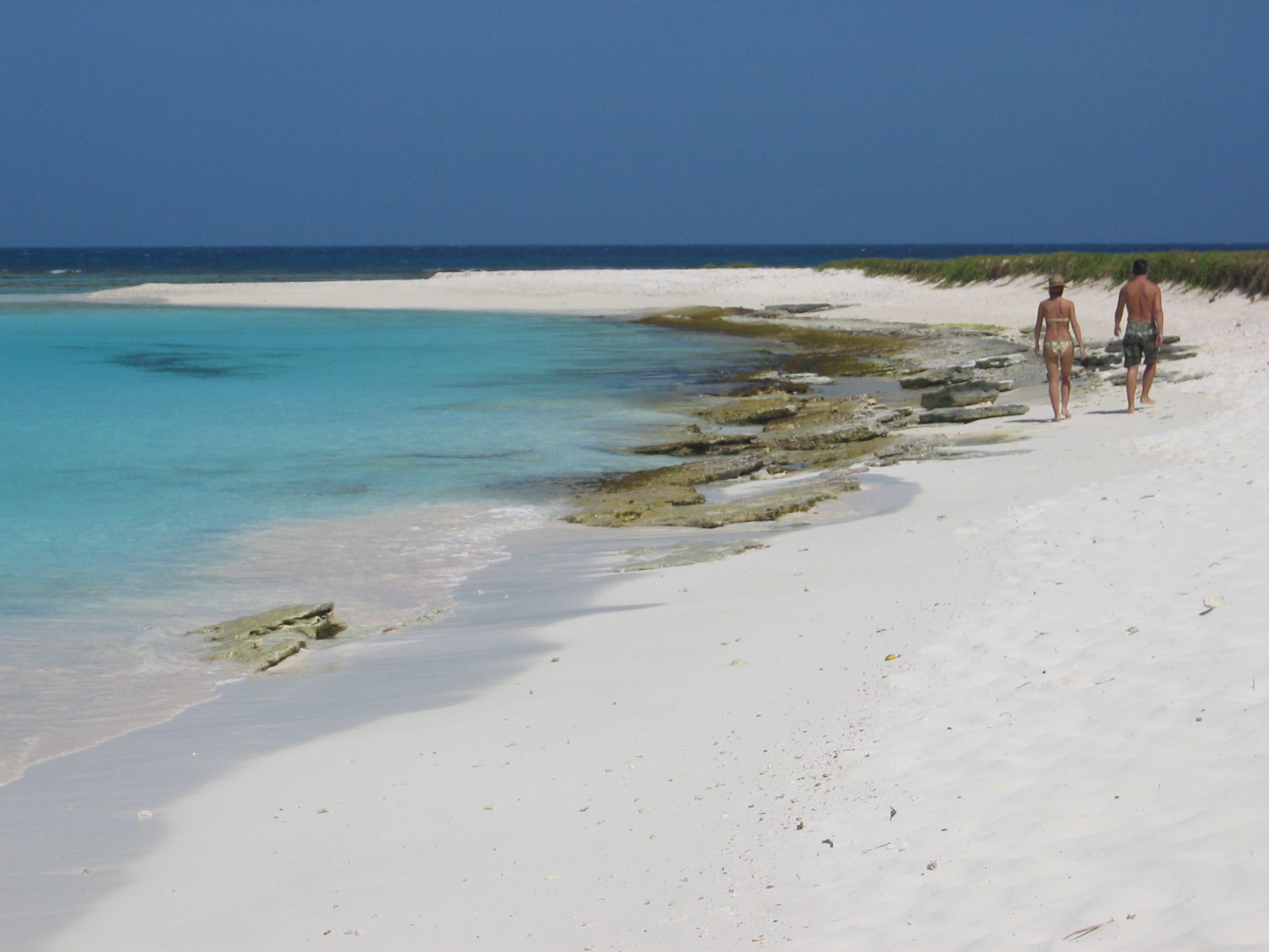 A view along a beach on Los Roques